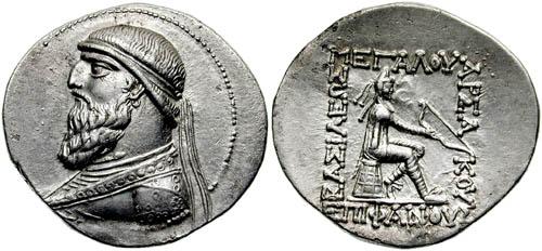 Coin of the Parthian king Mithridates II